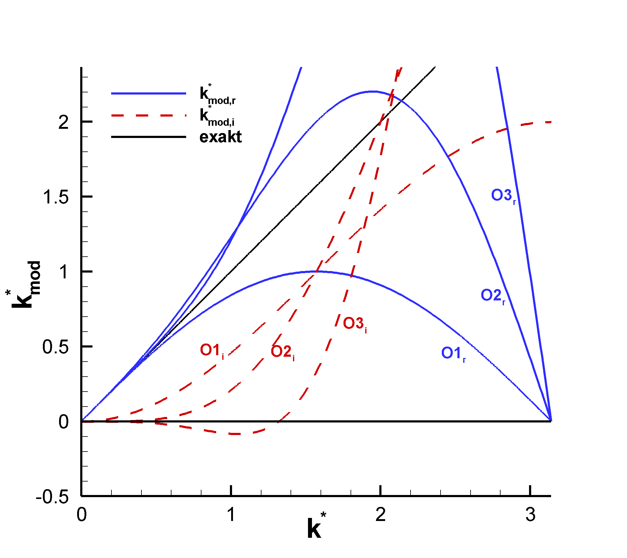 Modified wave number for biased explicit finite differences (downwind)